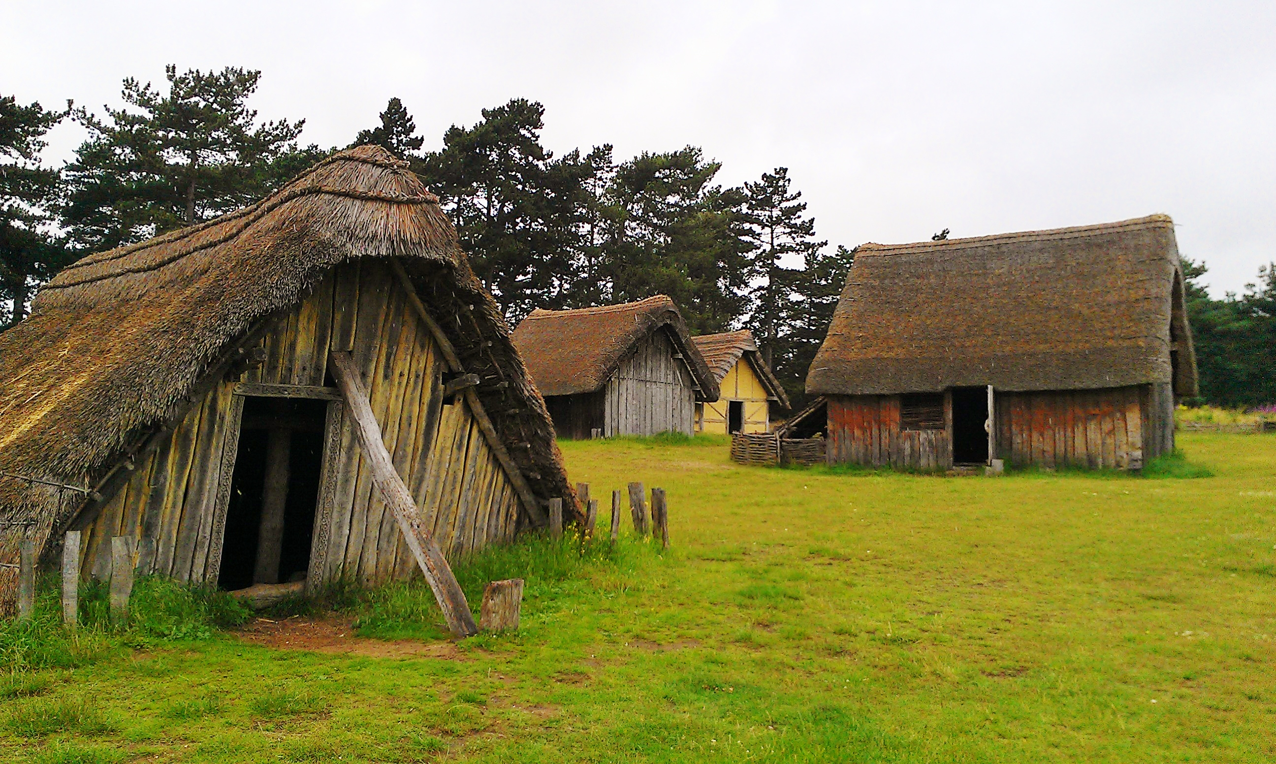 West Stow Anglo-Saxon village, summer 2012.